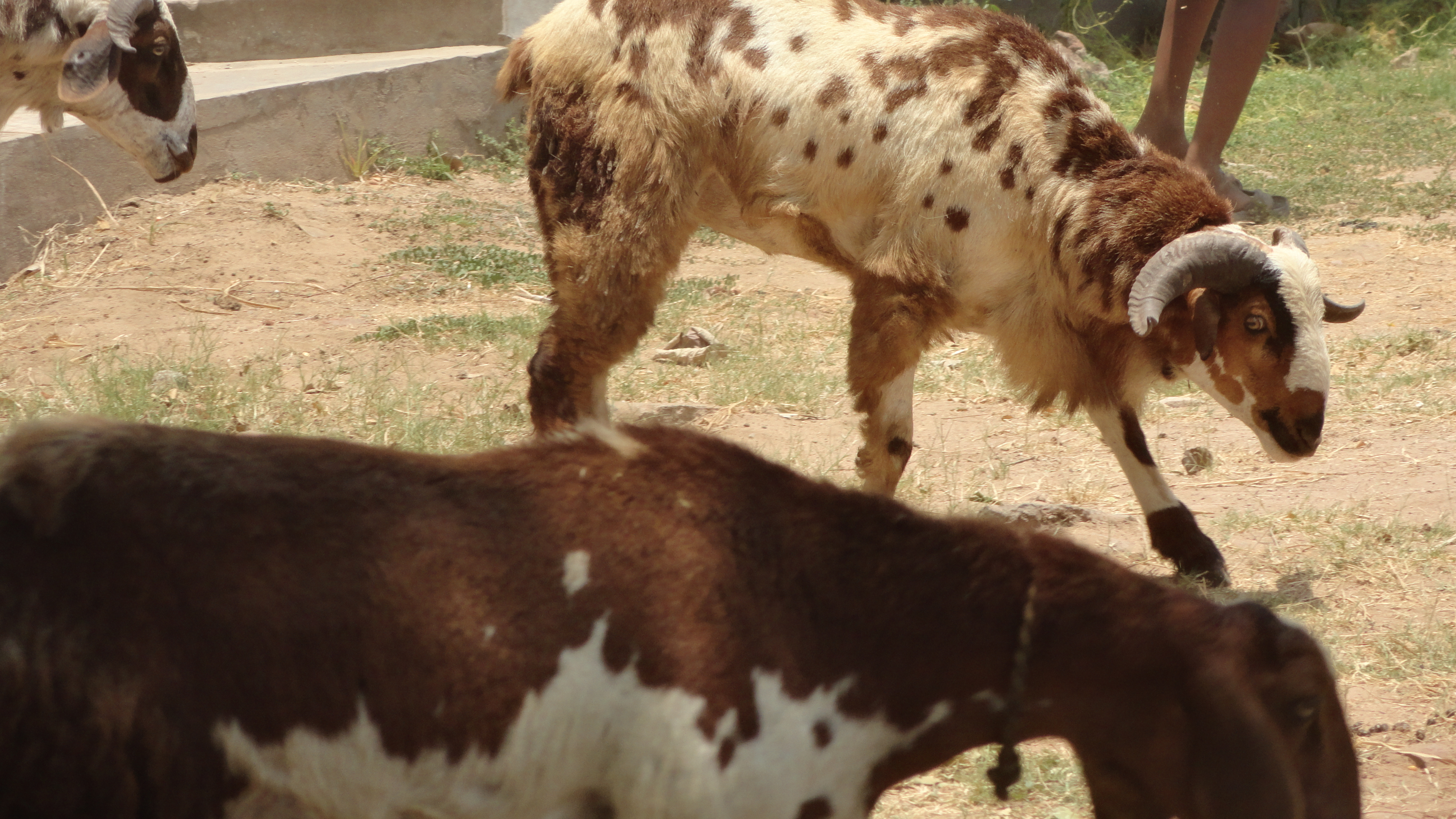 Village panchayat office Potharlanka, of Guntur dist.